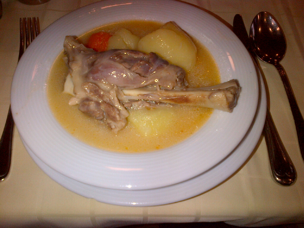 "Kusu haşlama", from the Turkish cuisine, made with a lamb shank ("kuzu incik" in Turkish)